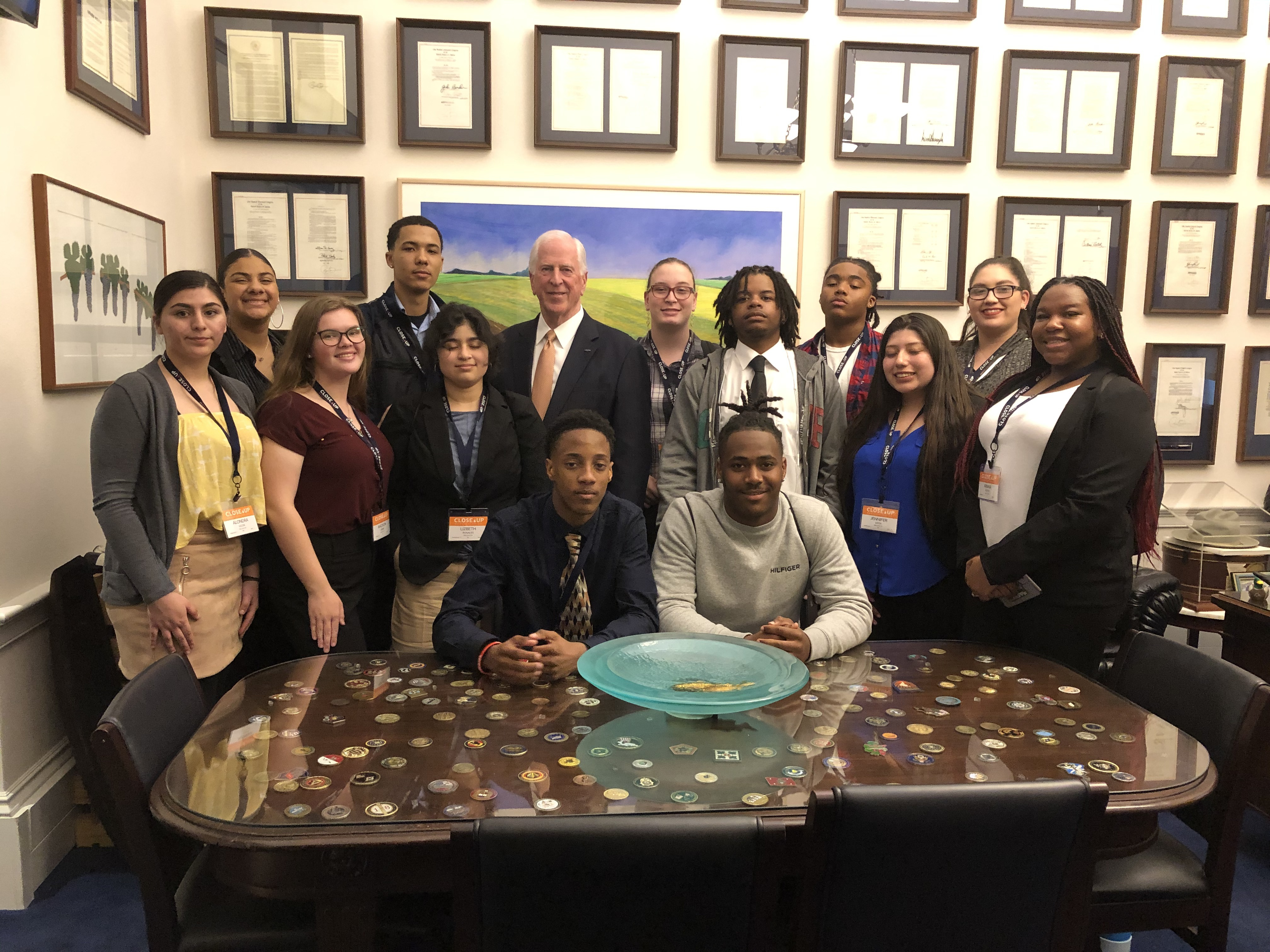 Great to meet and talk with the students from Jesse Bethel High School who are in town with the Close Up Foundation. Thank you for your great questions and engagement.